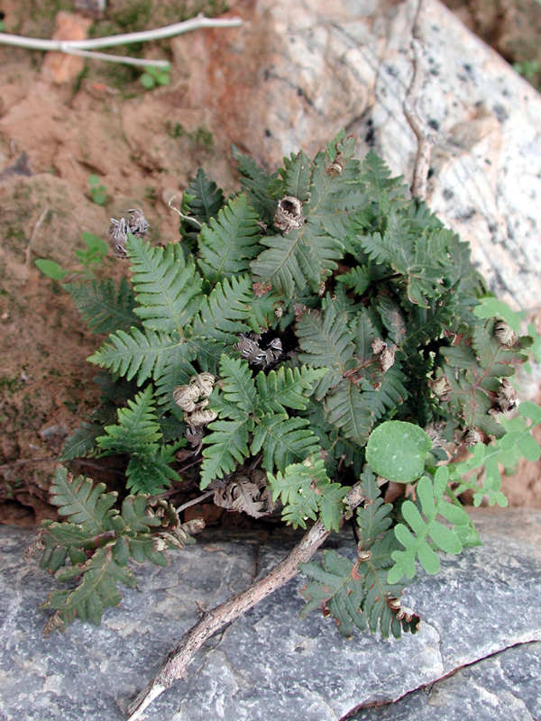 Notholaena standleyi — Standley Cloak Fern. Substrate is highly weathered gneiss At the Phoenix Mountains Preserve, Maricopa County, Arizona.